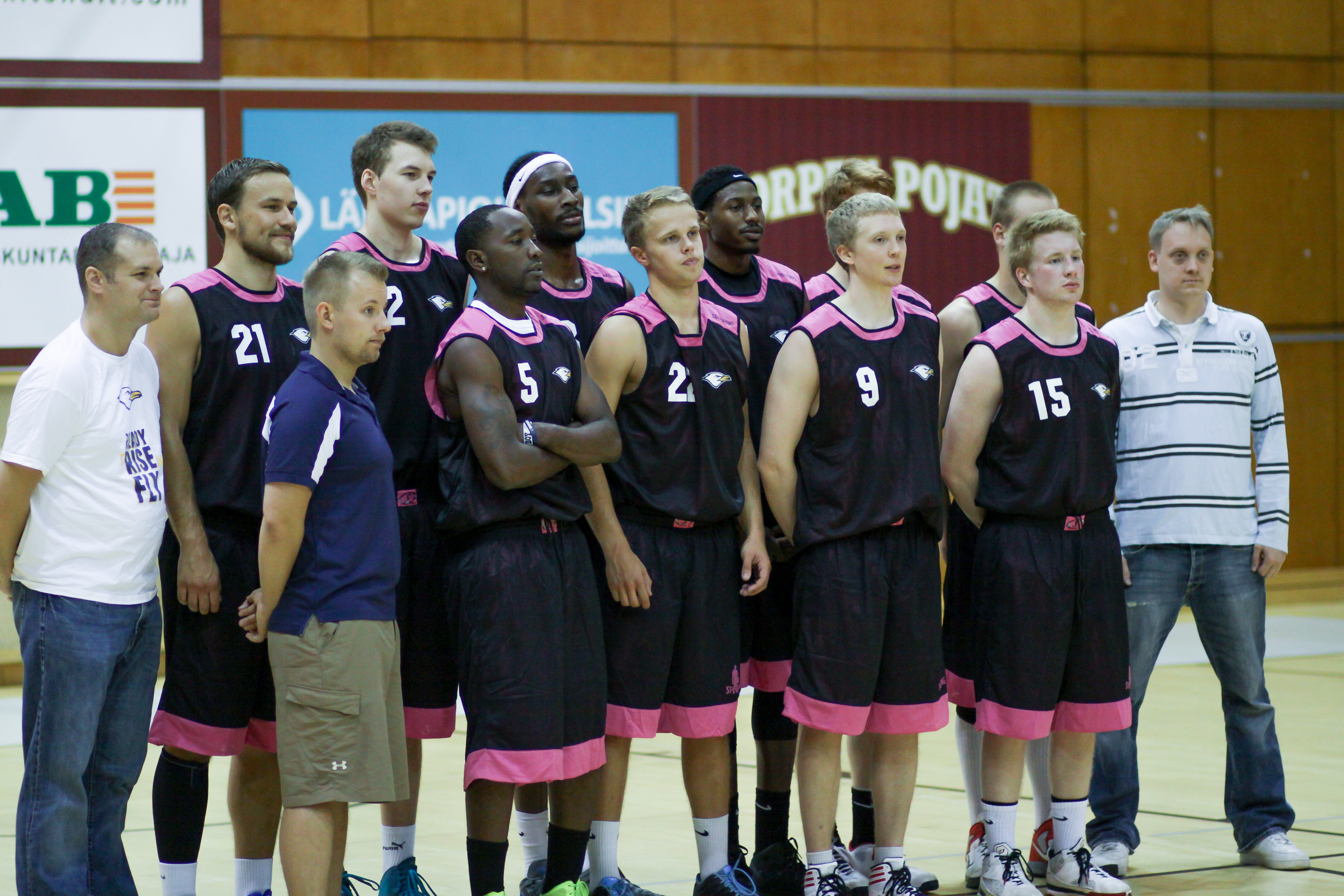 The first picture taken from the first team of Helsinki Seagulls during the first practice game (Pros in Sports) at the Töölö Sportshall in Helsinki.